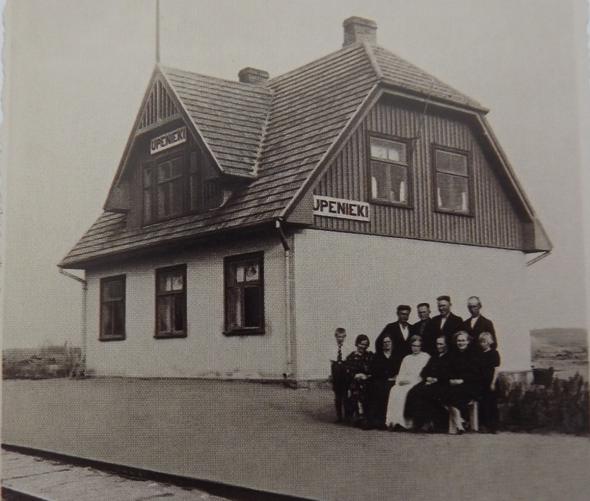 Upenieku pieturas punkts 1938.gadā